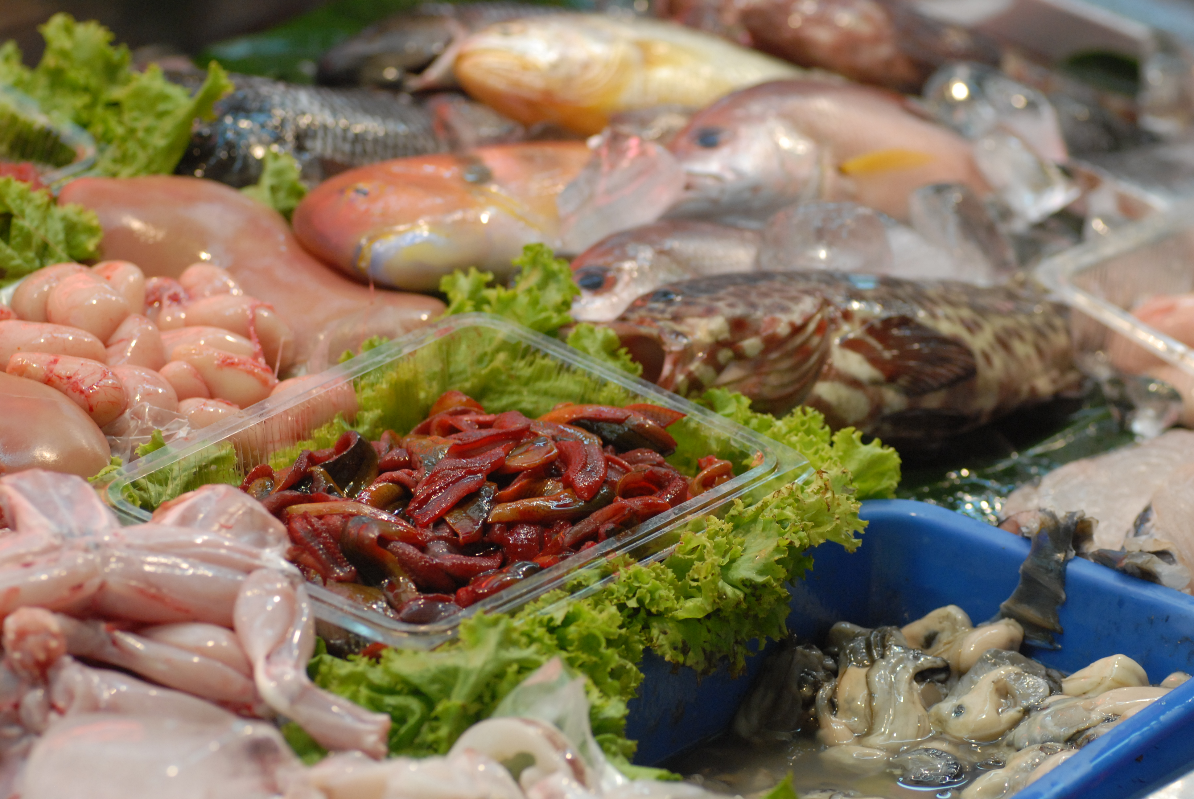 Taiwanese food